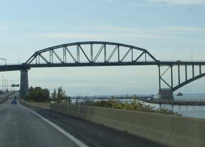 Peace Bridge from Interstate 190 southbound - Buffalo, New York